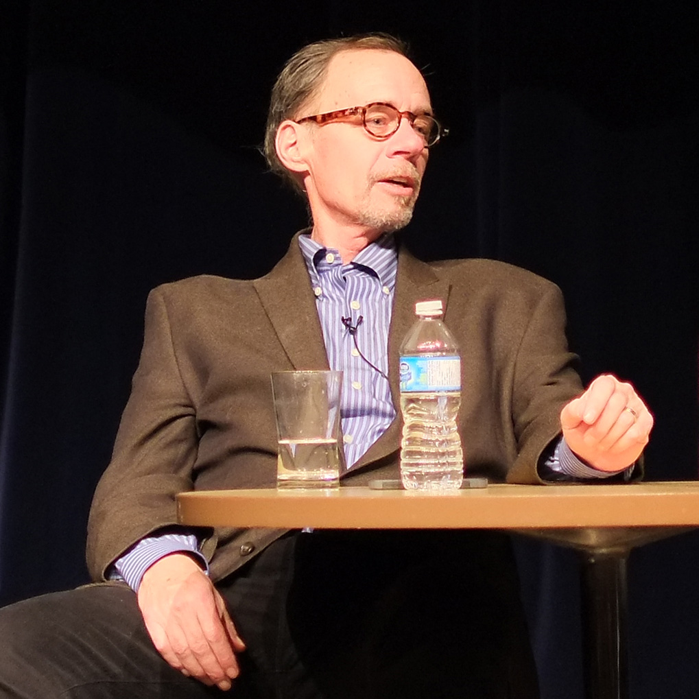 David Carr speaks at the PuSh International Performing Arts Festival at Capilano University, in North Vancouver, BC.